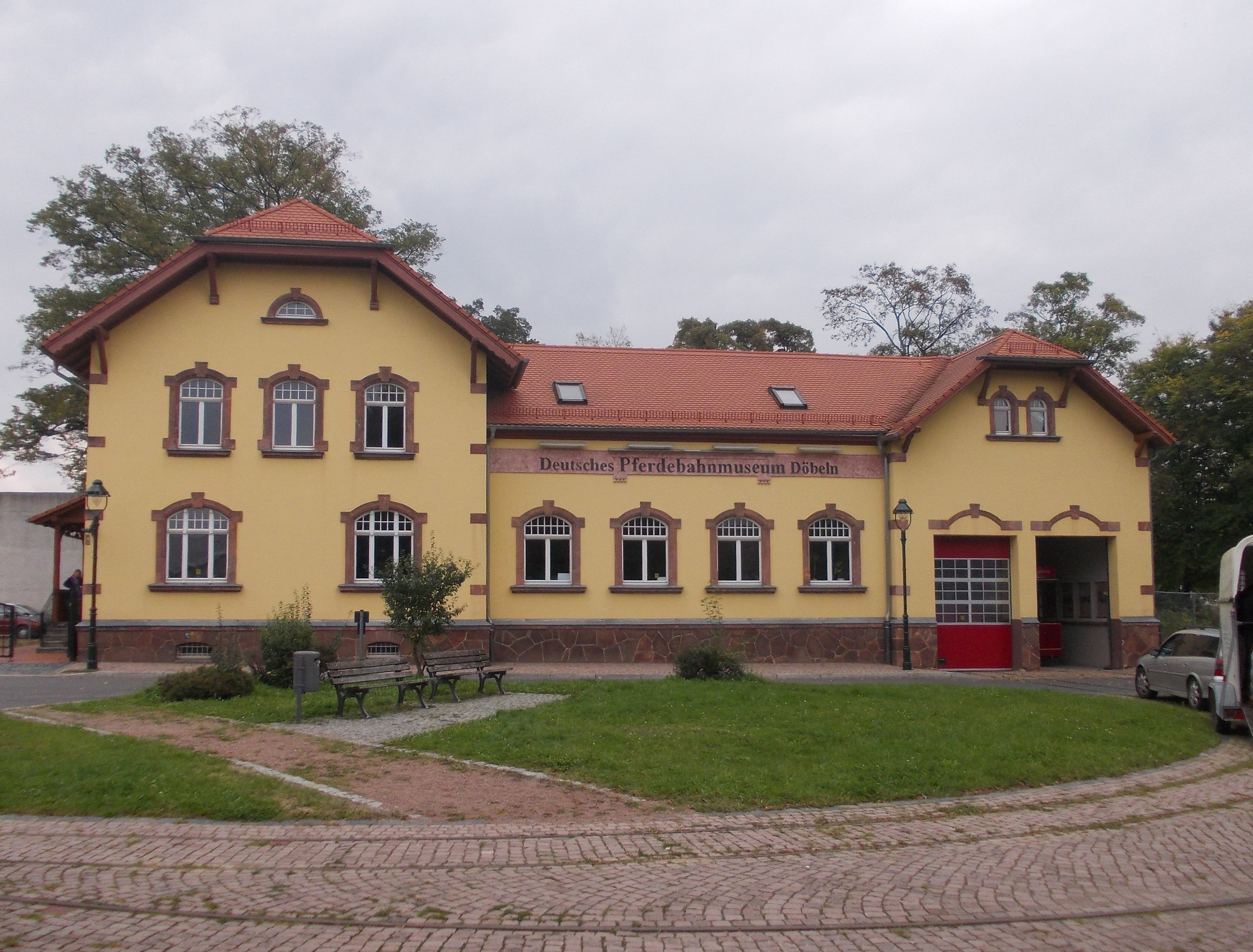 Horsecar museum in Döbeln (Mittelsachsen district, Saxony)